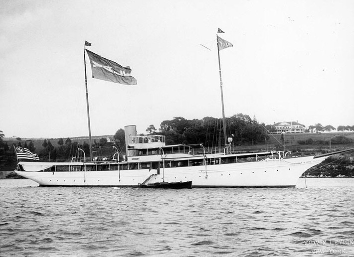 Photo #: NH 96642 Sultana (American Steam Yacht, 1889) At anchor, prior to her World War I Navy service. This steam yacht was built in the late 1800's for Trenor Luther Park. He sailed it with his wife Julia Catlin Park to Majorca and went to South America, the Windward Isles, the North Cape and the Suez. See New York Times newspaper for launch details. In 1907 it was sold to Oliver Harriman and in 1917 the American Navy used it in the war. Photographed by Edwin Levick, New York. Note the large "YALE" flag and pennant flying from her mast peaks. Sultana was delivered to the Navy on 4 May 1917 and commissioned on 27 May 1917 as USS Sultana (SP-134). She was returned to her owner on 17 February 1919.